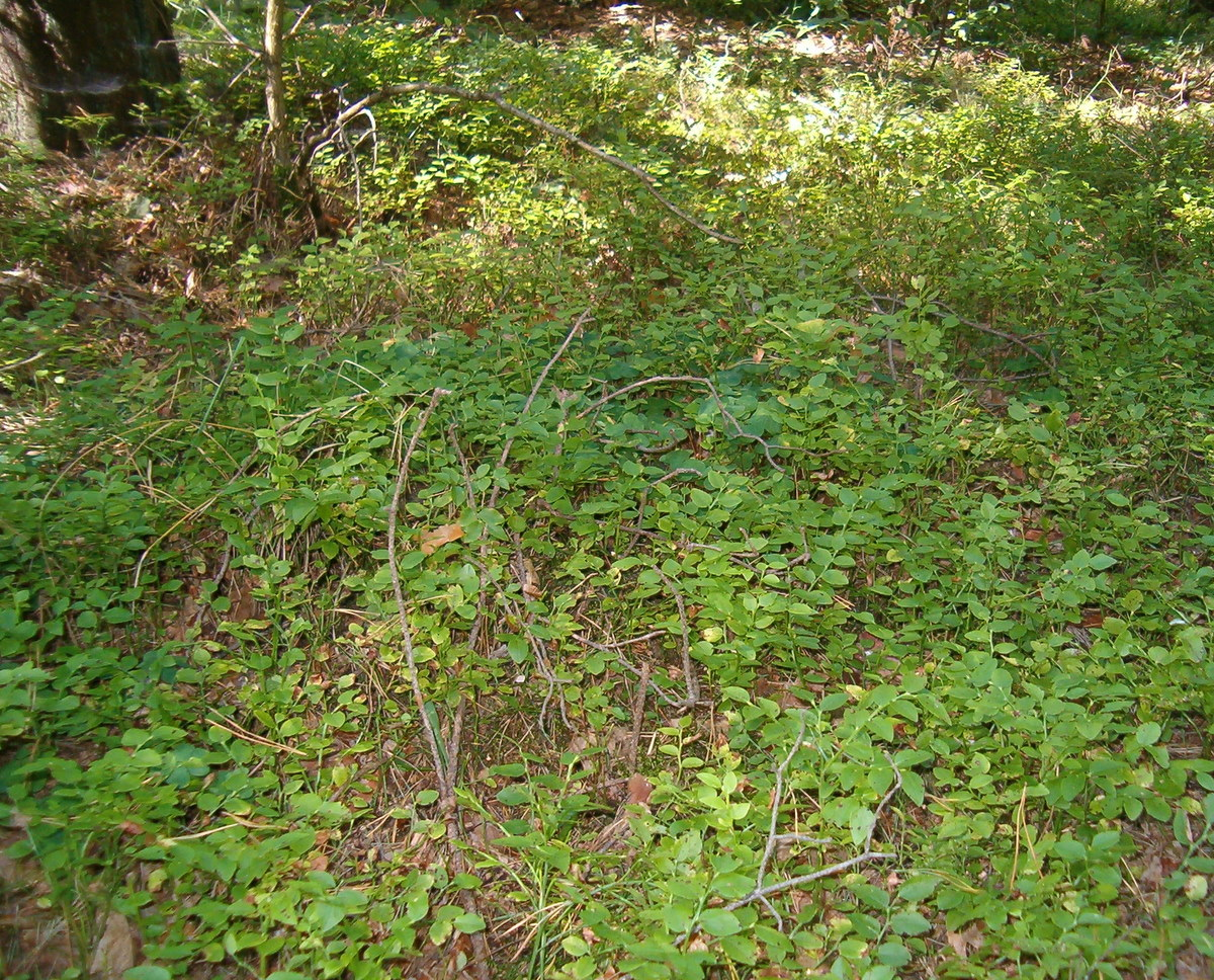 Vaccinium myrtillus in the forest of Pinus sylvestris, Rivne oblast, Ukraine